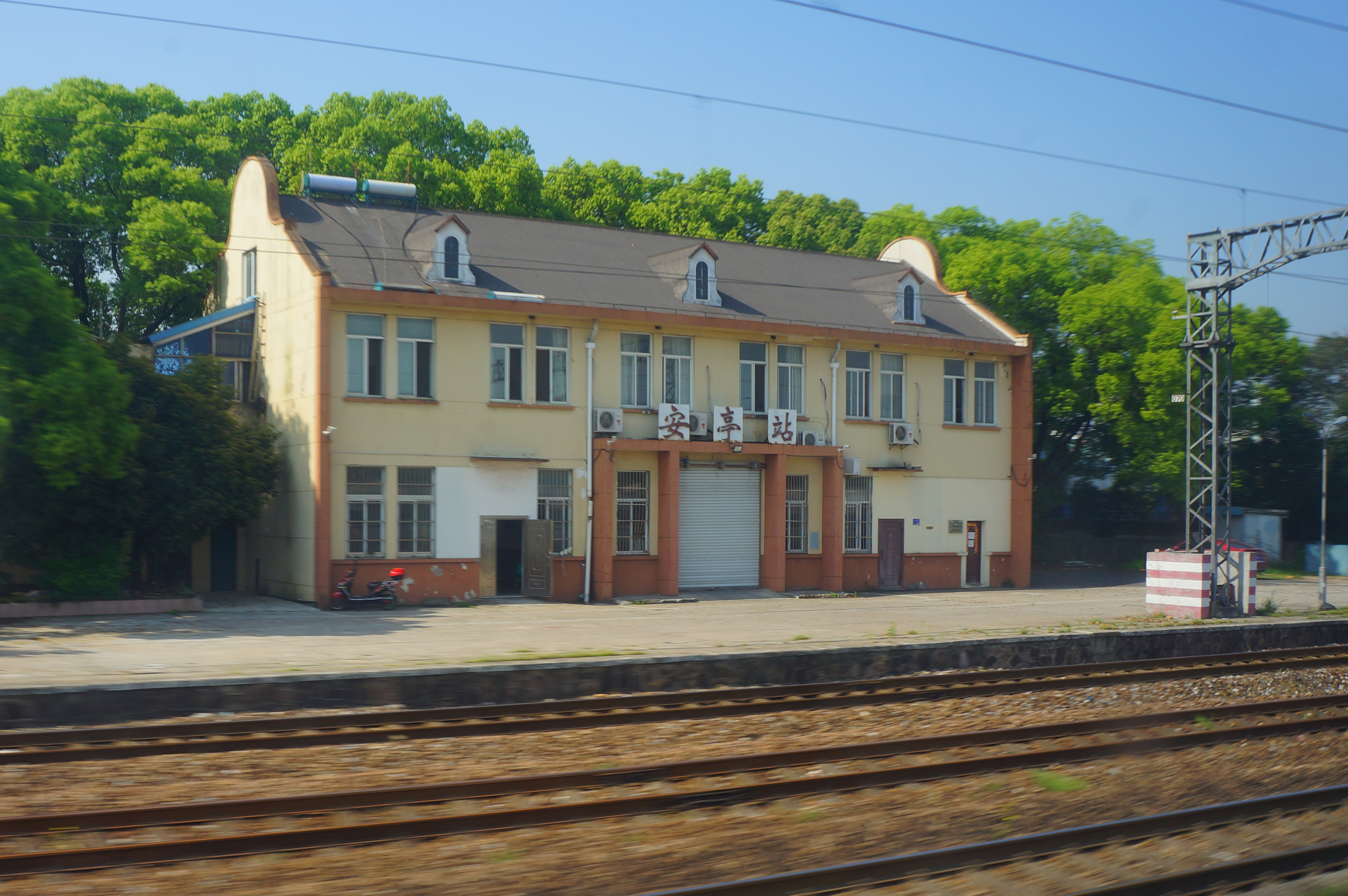 201704 Anting Station